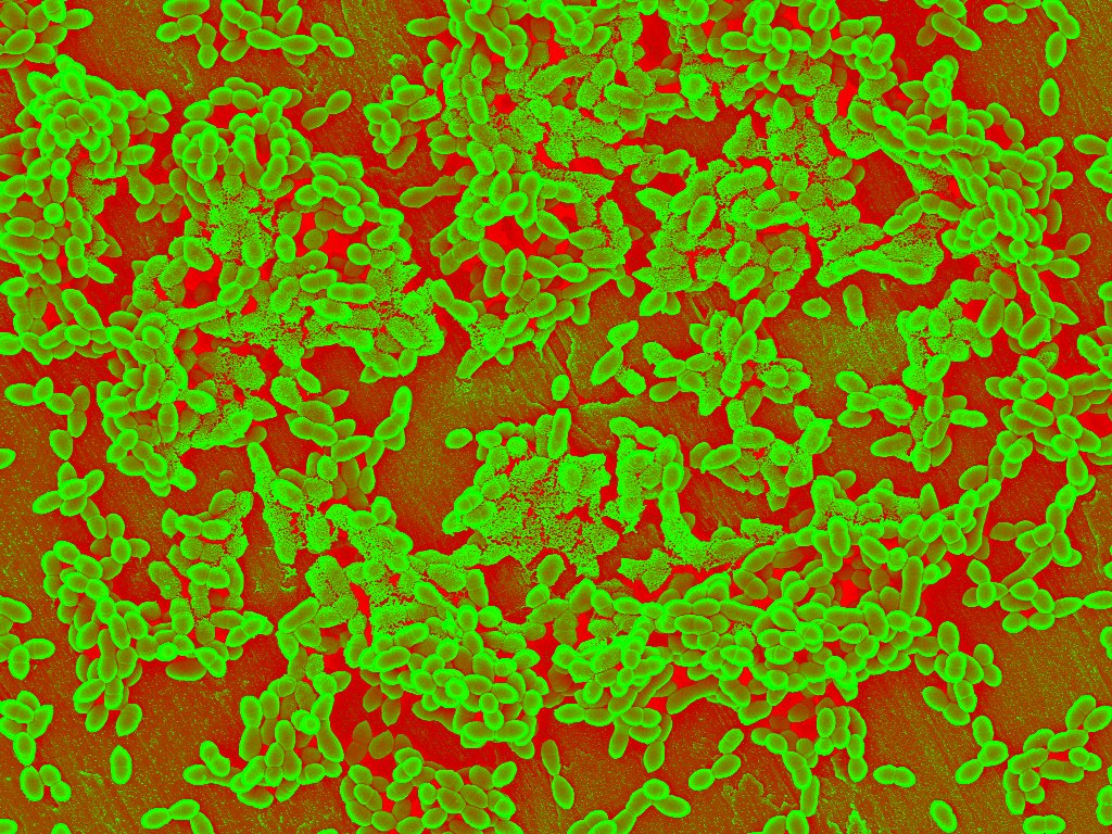 Streptococcus oralis biofilm on a titanium substrate. Scanning electron microscopy.